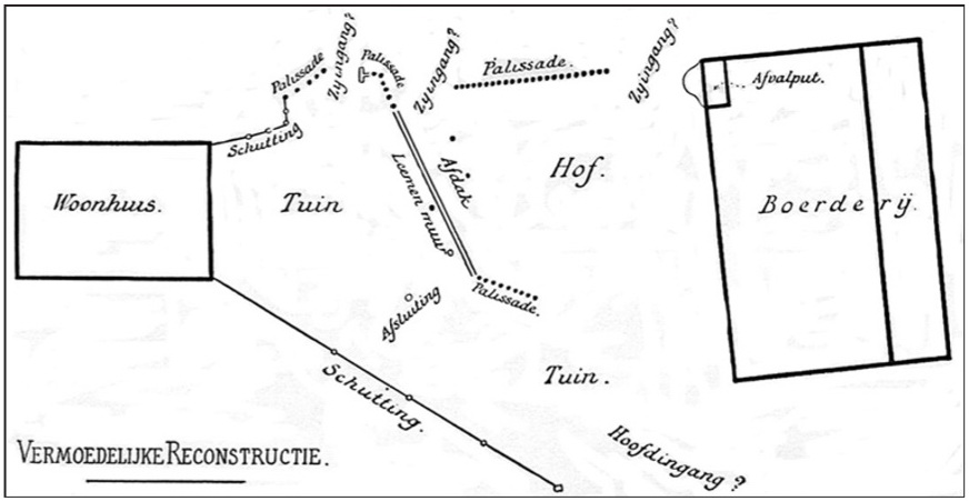 Map by J.W.H. Goossens of the archaeological excavation of the Roman villa at Valkenburg-Heihof, Limburg, the Netherlands.